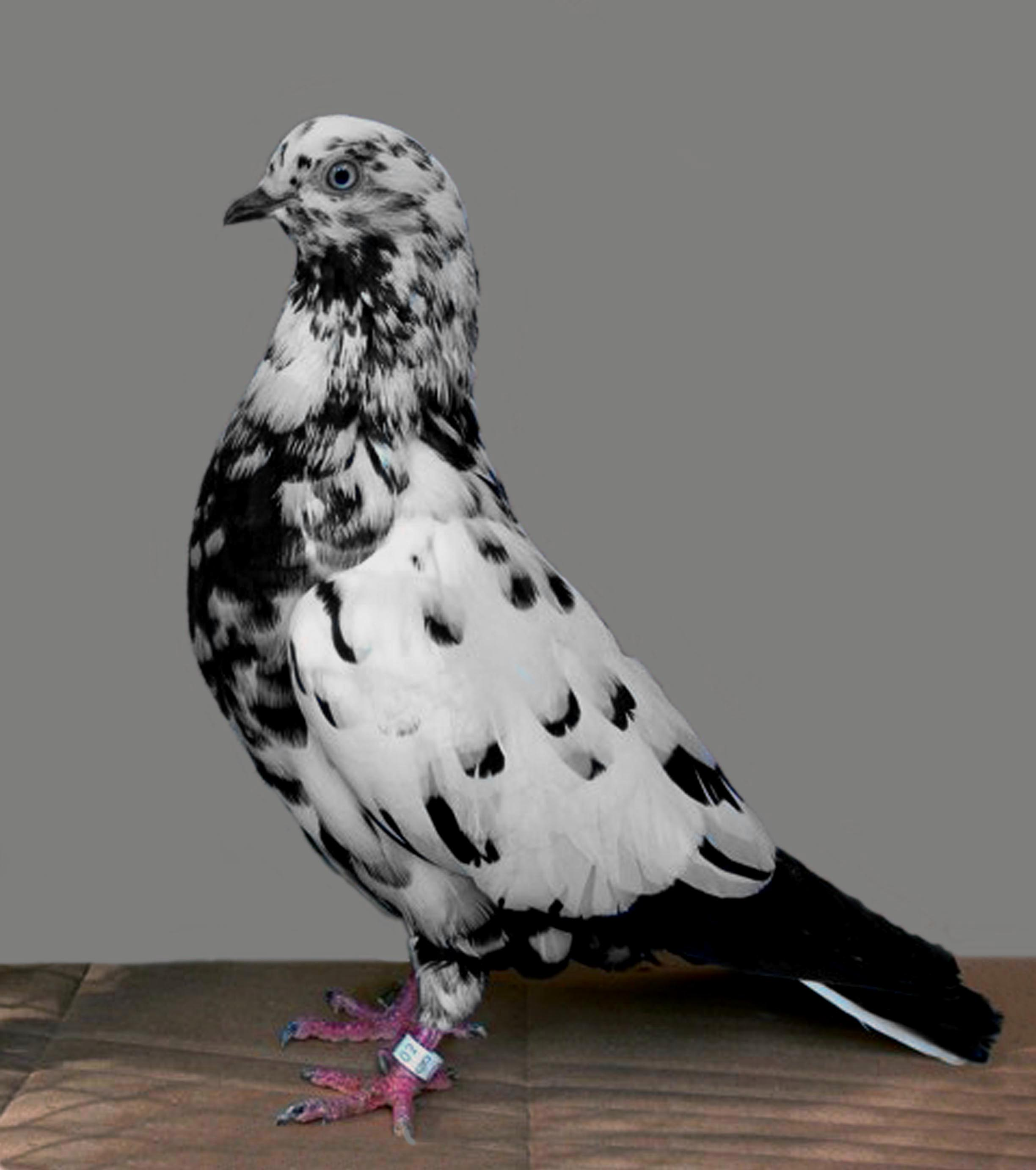 Parlour Tumbler